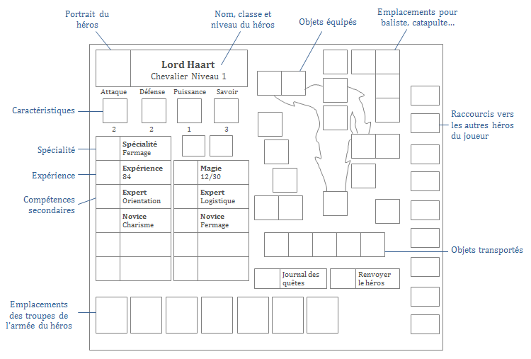 Diagram showing the functionalities of the interface of an hero's screen in the video game Heroes of Might and Magic III (1999).